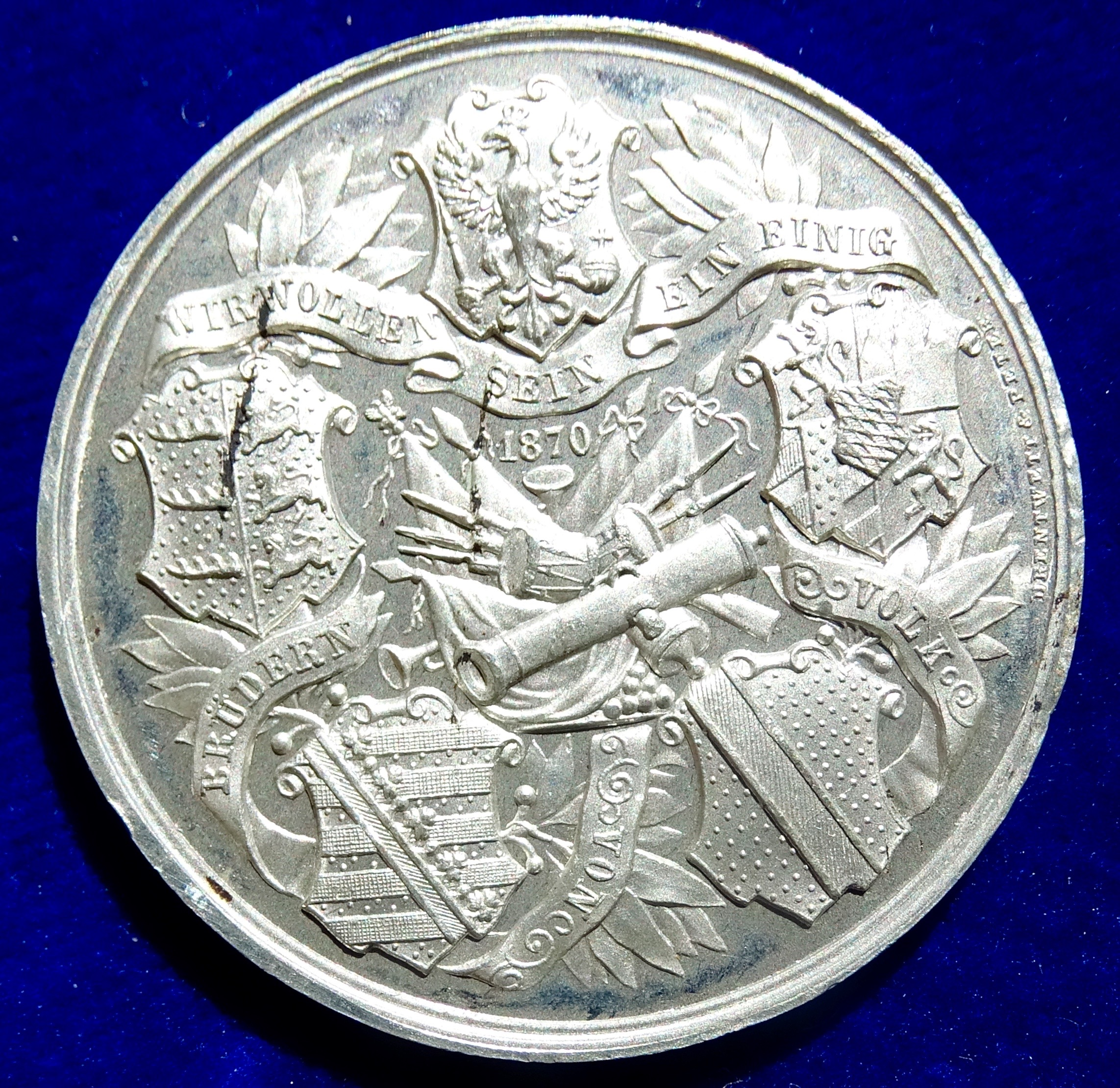 Pewter d. = 41 mm. The Siege of Strasbourg took place during the Franco-Prussian War, and resulted in the French surrender of the fortified city to the combined German forces from Baden and from Württemberg on 28 September 1870. On French arms standing Germania l. holding sword, the double headed Imperial Eagle on a shield at r. In the background a view of Strasbourg. Curved above: "FÜR FREIHEIT RECHT UND DEUTSCHE EHRE"/ 5 shields of Prussia, Bavaria, Baden, Saxony, and Württemberg around arms, and "1870". On a scroll connecting the shields: "WIR WOLLEN SEIN EIN EINIG VOLK VON BRÜDERN" (see Schiller- William Tell, Rütlischwur, a legendary oath of the Old Swiss Confederacy). Slg. Marienburg 5773. Medallists: (Carl) Drentwett, 1848 Augsburg - 1876 & Peter Condition: EXTREMELY FINE.